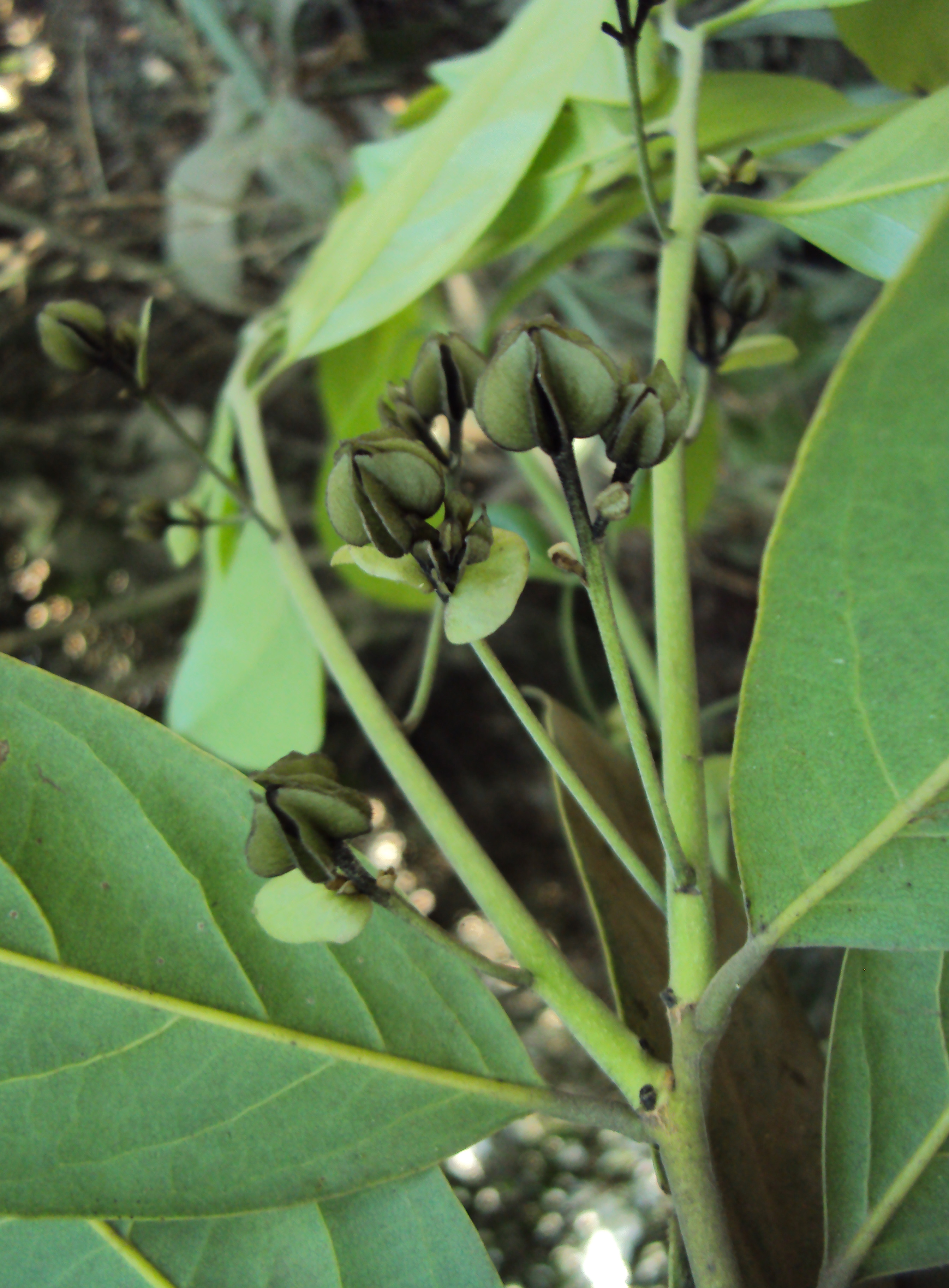 Diospyros paniculata